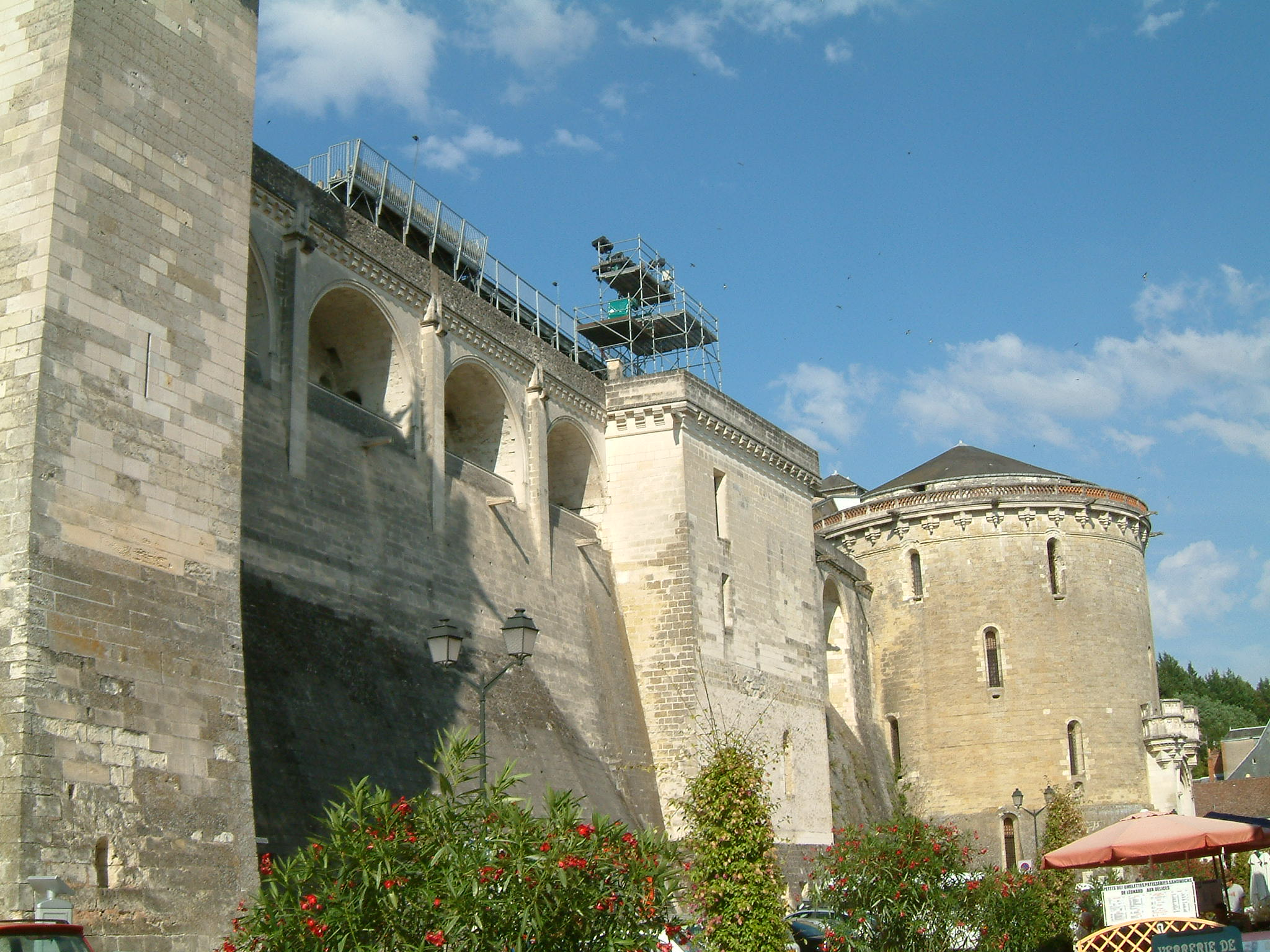 Amboise castle, Amboise, FRANCE